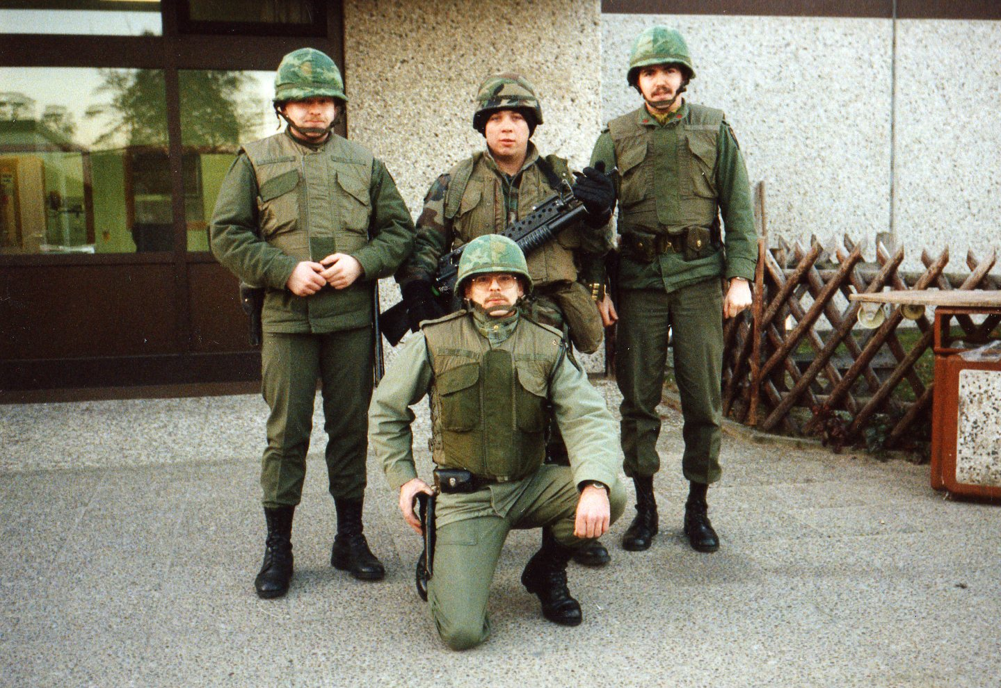 Shoppingcenter Truman Plaza, Berlin